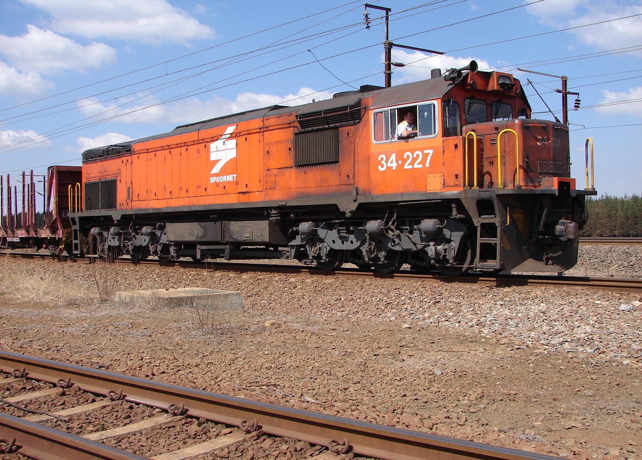 South African Class 34-200 34-227Builder's Number: EMD 37589 Type: EMD GT26MCLocation: Wildrand, Mpumalanga